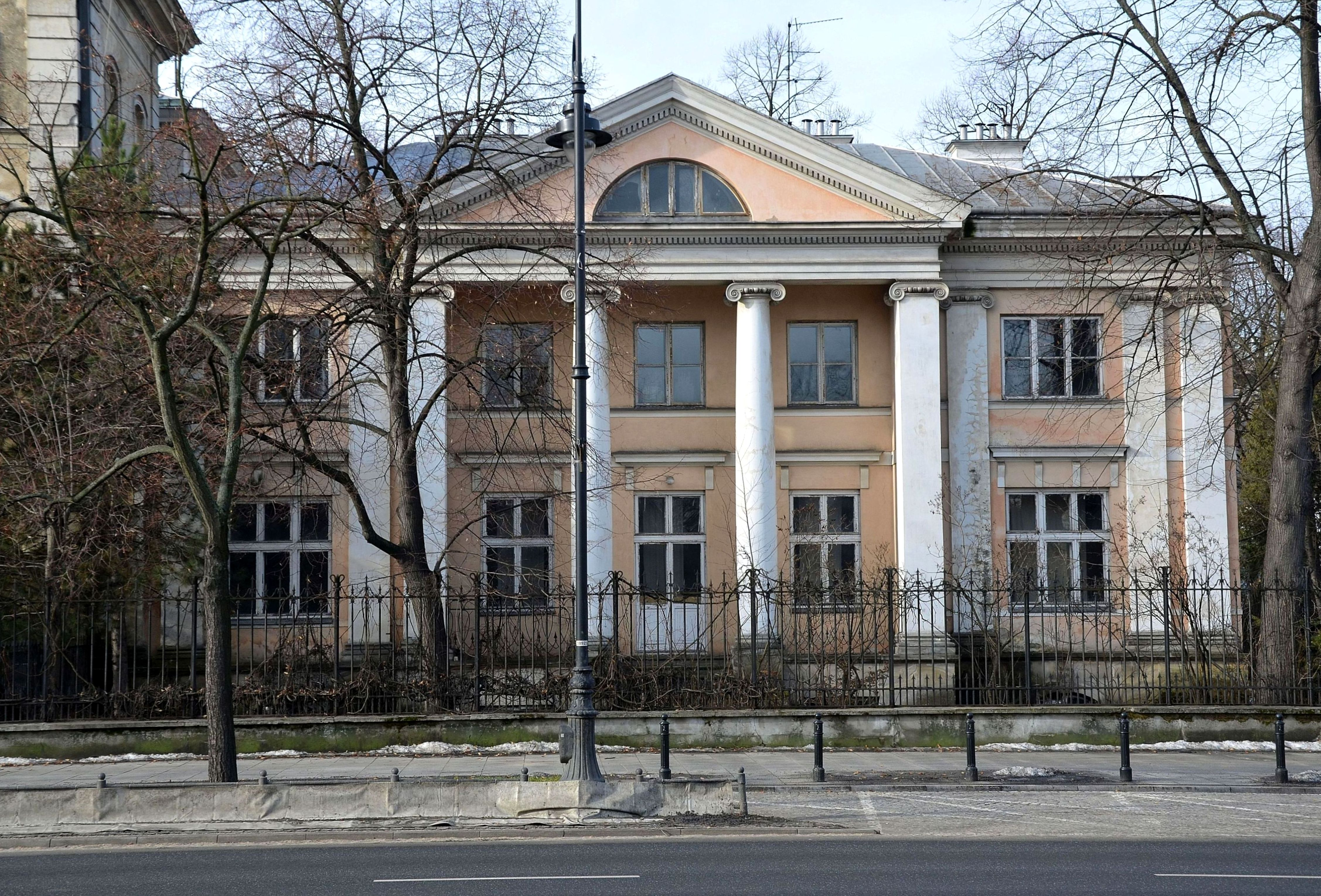 Śleszyński Palace at 25 Ujazdowskie Avenues in Warsaw